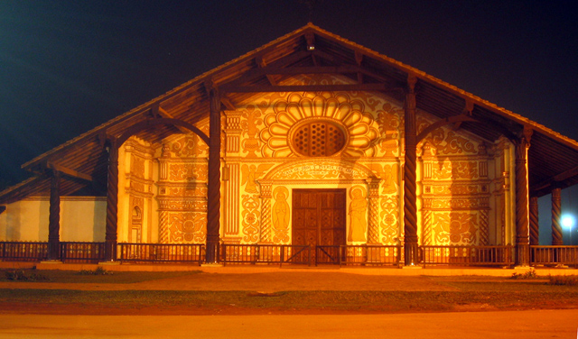 Photo of a Bolivian Church in the Unesco World Heritage Site of the Jesuit Missions of the Chiquitos. Taken at 12:57am